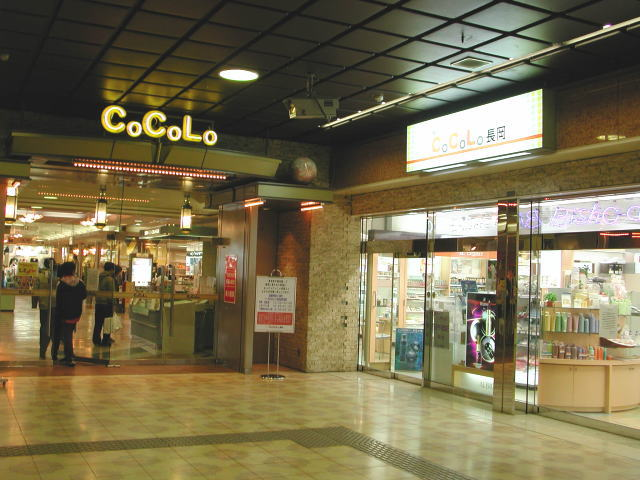 Nagaoka Station